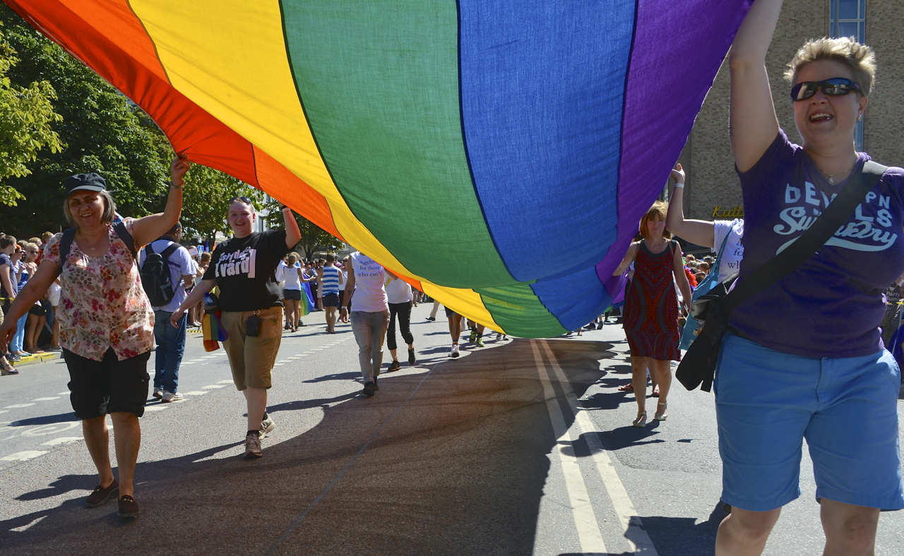 The concluding Pride Parade during Stockholm Pride 2013.